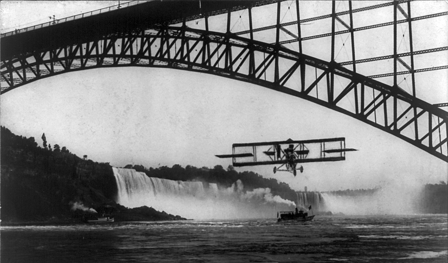 Lincoln Beachey's Flight under Niagara Falls Bridge.